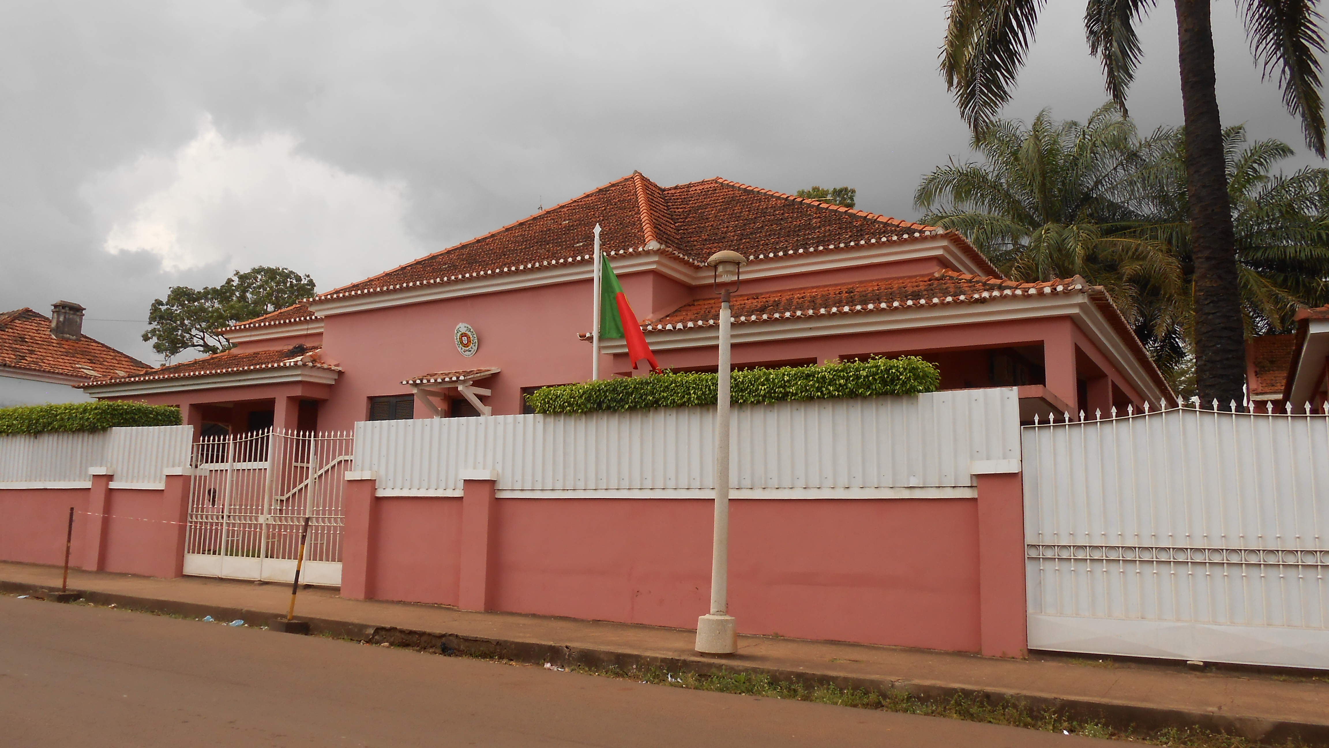 The portuguese embassy in Bissau, capital of Guinea-Bissau.